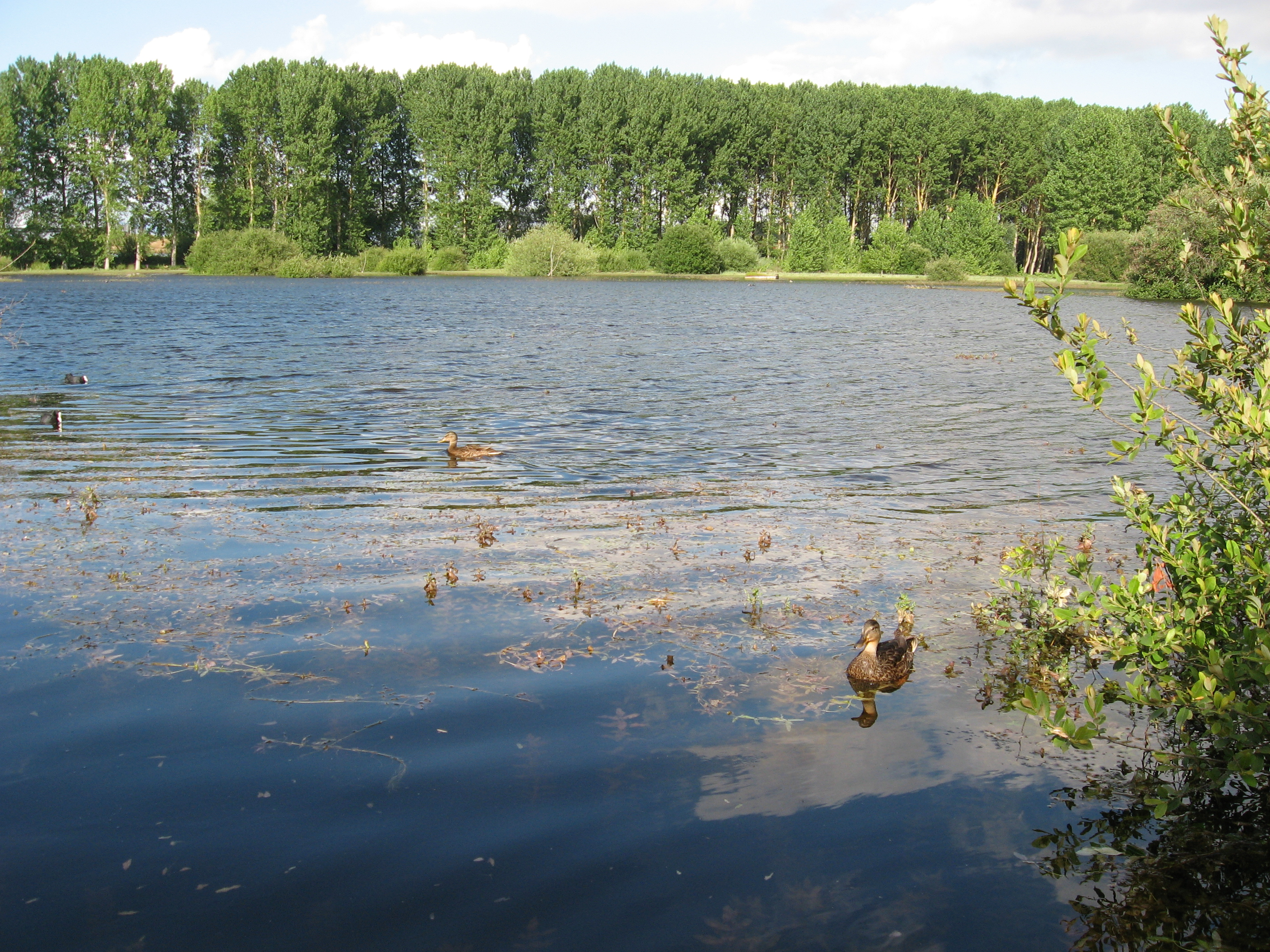 Wetlands pond lagoon, with ducks (Anas platyrhynchos) In the 'Salburua wetlands nature preserve, Vitoria-Gasteiz, Basque Autonomous Community, northern Spain. Date: July 19th, 2007